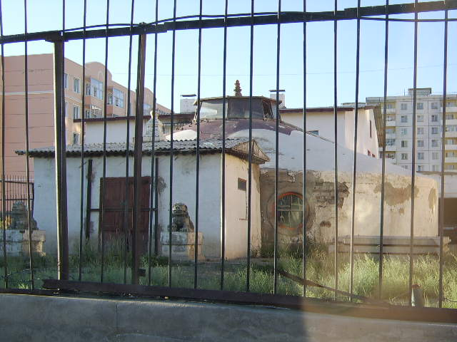 An old yurt style temple in the middle of a residential area in Ulaanbaatar, Mongolia.